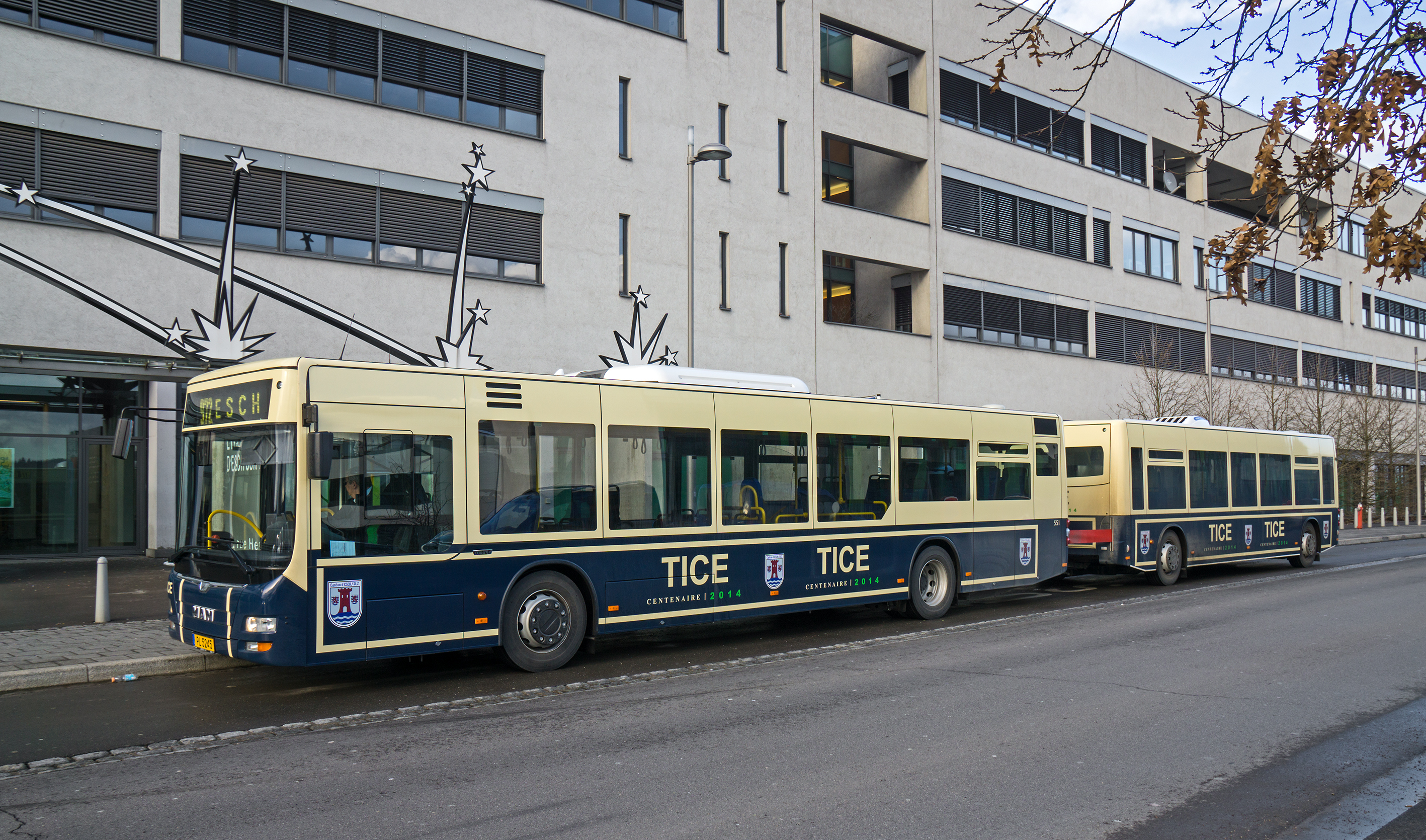 A TICE-bus with trailer at the Lycée technique d'Esch-sur-Alzette